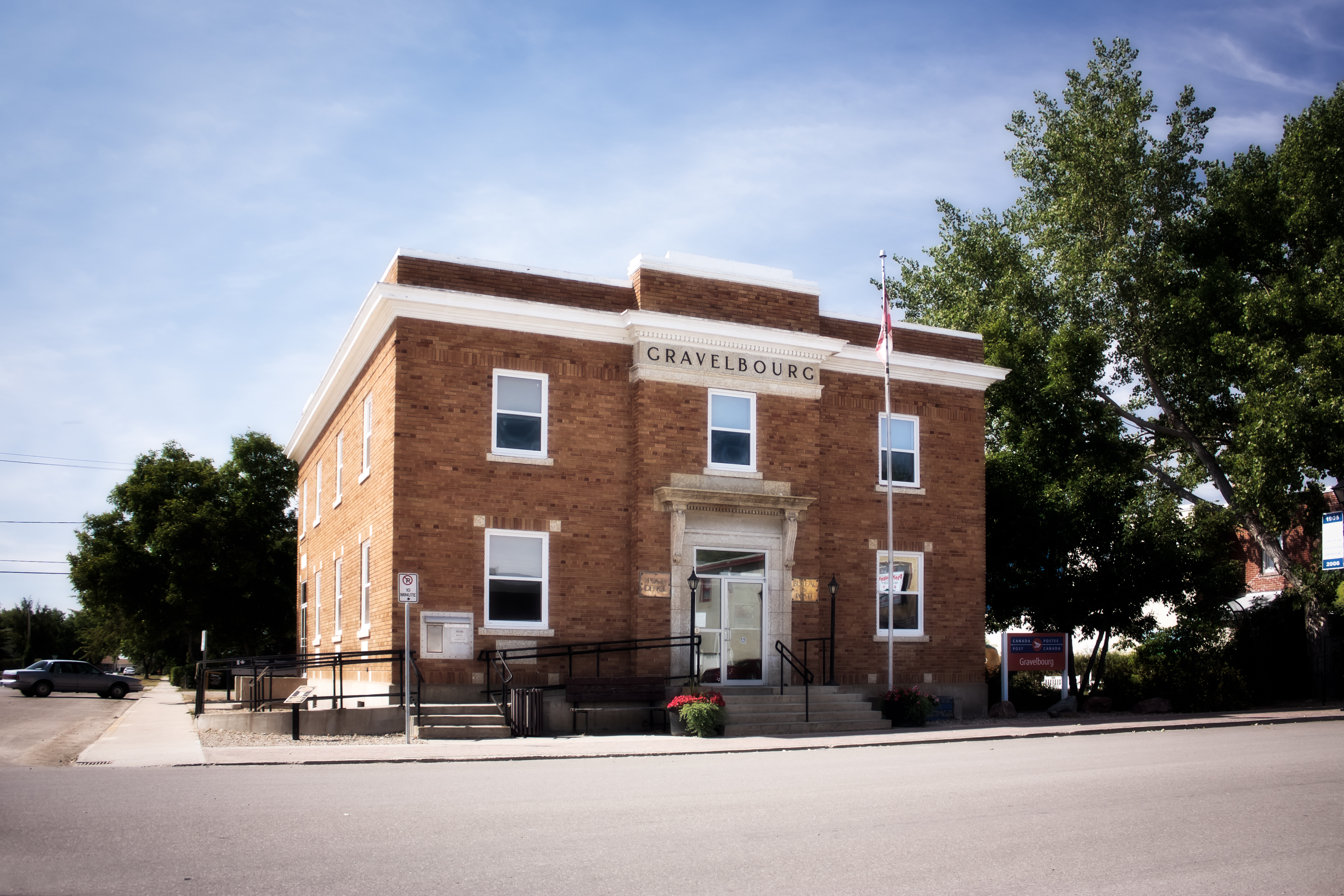 Built between AD 1929-1930, the Gravelbourg Post Office is a two-storey building designed in the Modern Classical style and detailed with Tyndall stone.